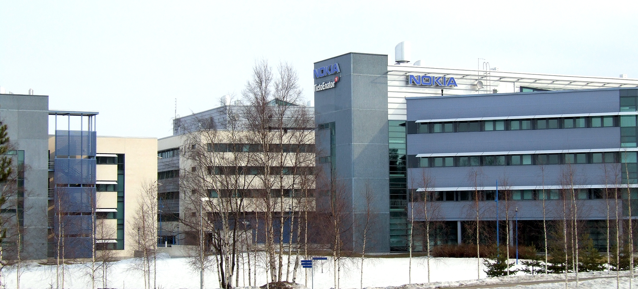 The Office premises for Nokia Corparation in Peltola neighbourhood in Oulu, Finland. The buildings were completed in three phases during the years 1999–2002. Designed by architect office UKI-Arkkitehdit Oy.